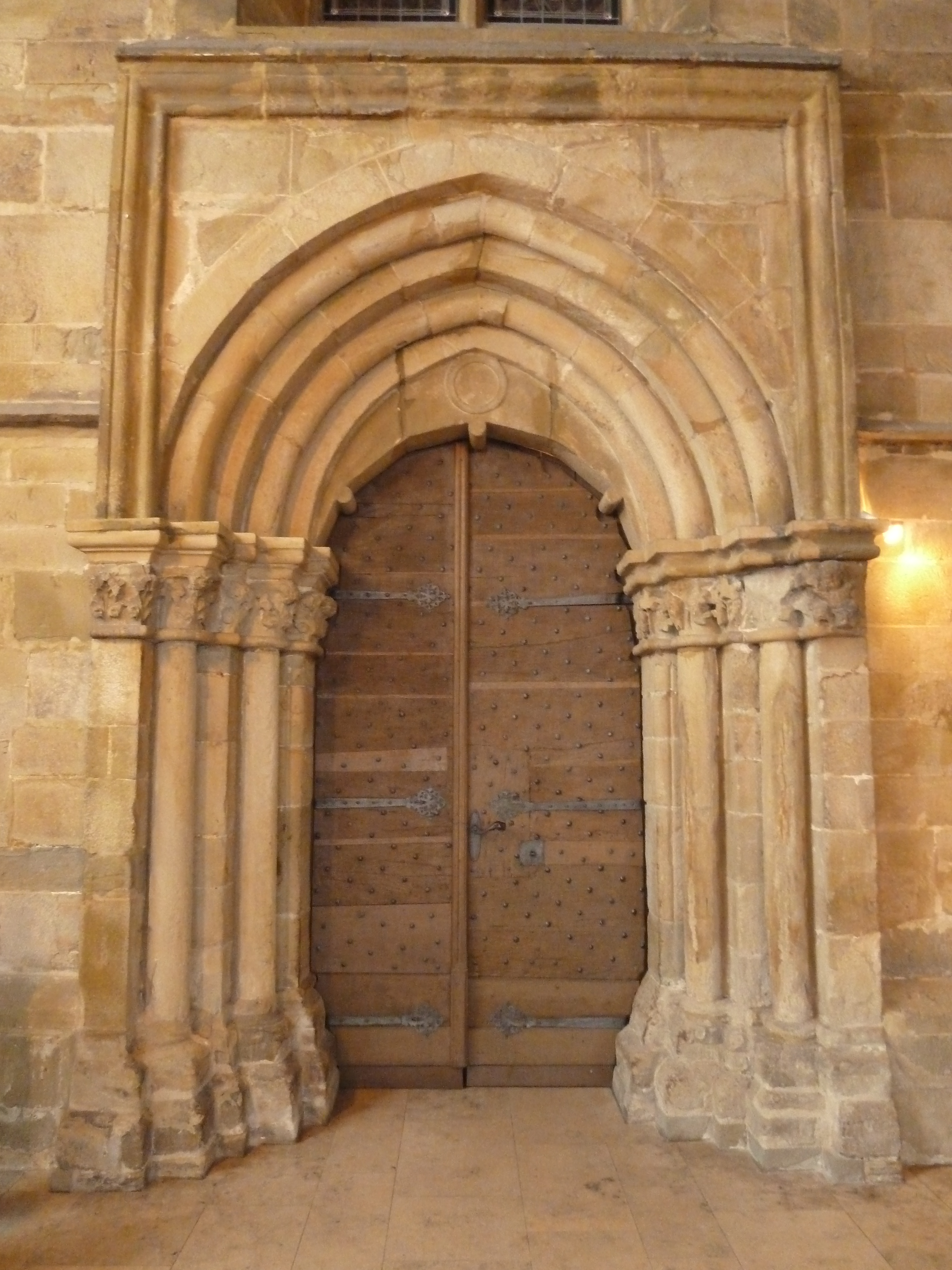 own file